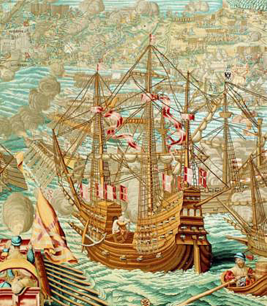 =Bombardment of La Goletta